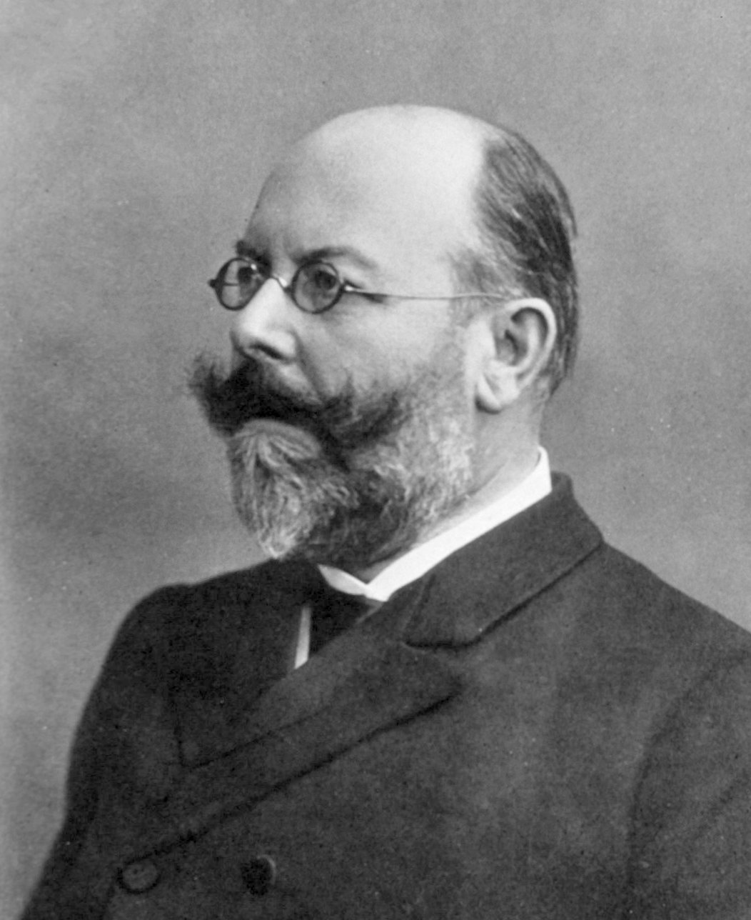 Friedrich Loeffler